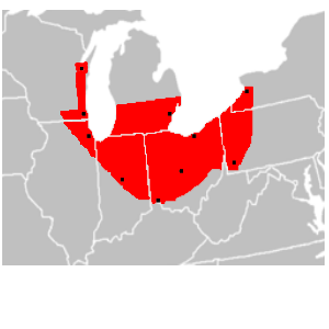 ChiPitts (Chicago-Pittsburg) megalopolis area in red. Major cities are shown with a black dot